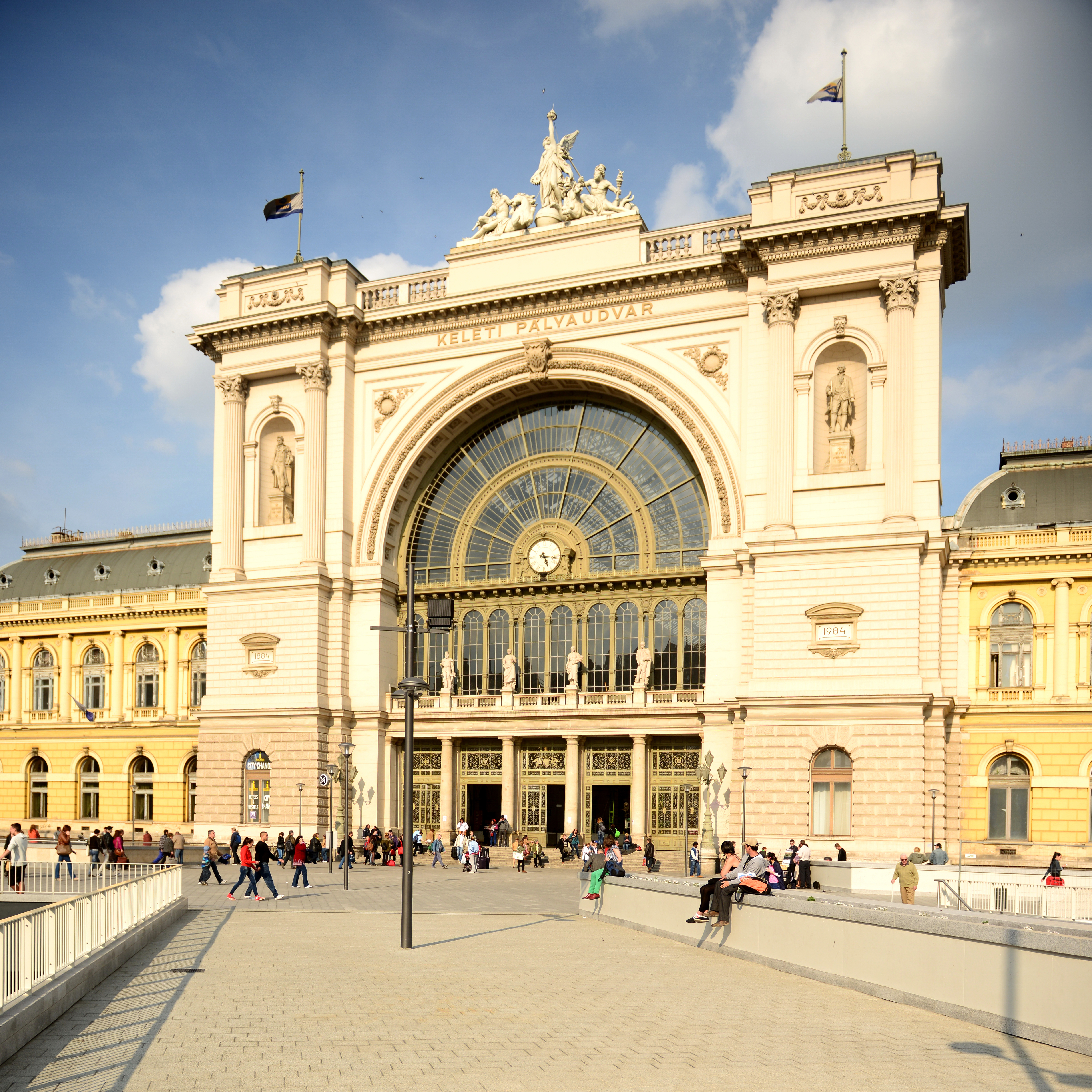 Budapest Keleti railway station, main portal